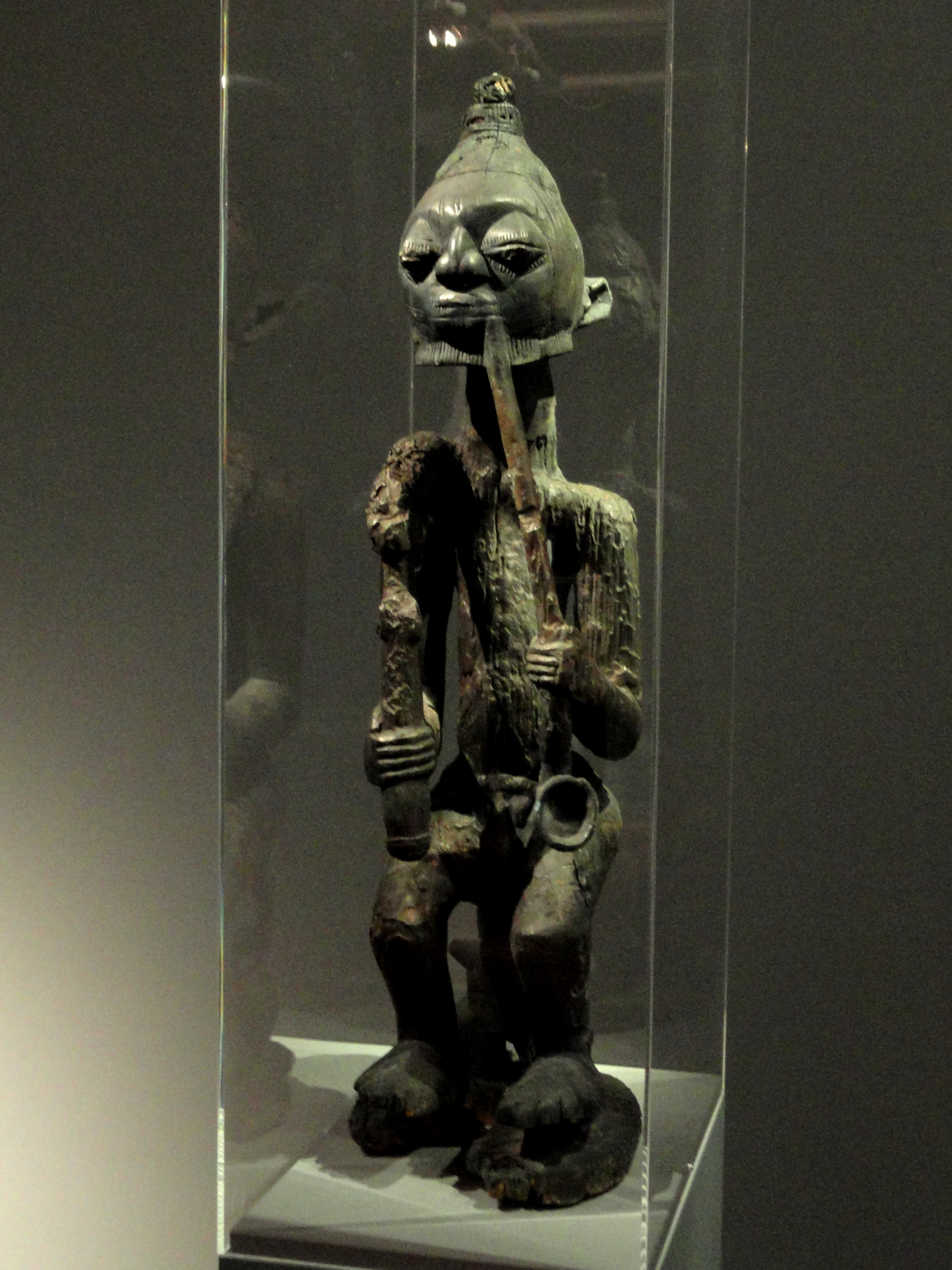 Exhibit from the 'Kunst der Welt' gallery of the Staatliches Museum für Völkerkunde München, Maximilianstraße 42, Munich, Germany. Figure of deity Eshu, Yoruba, Nigeria, end of 19th century.